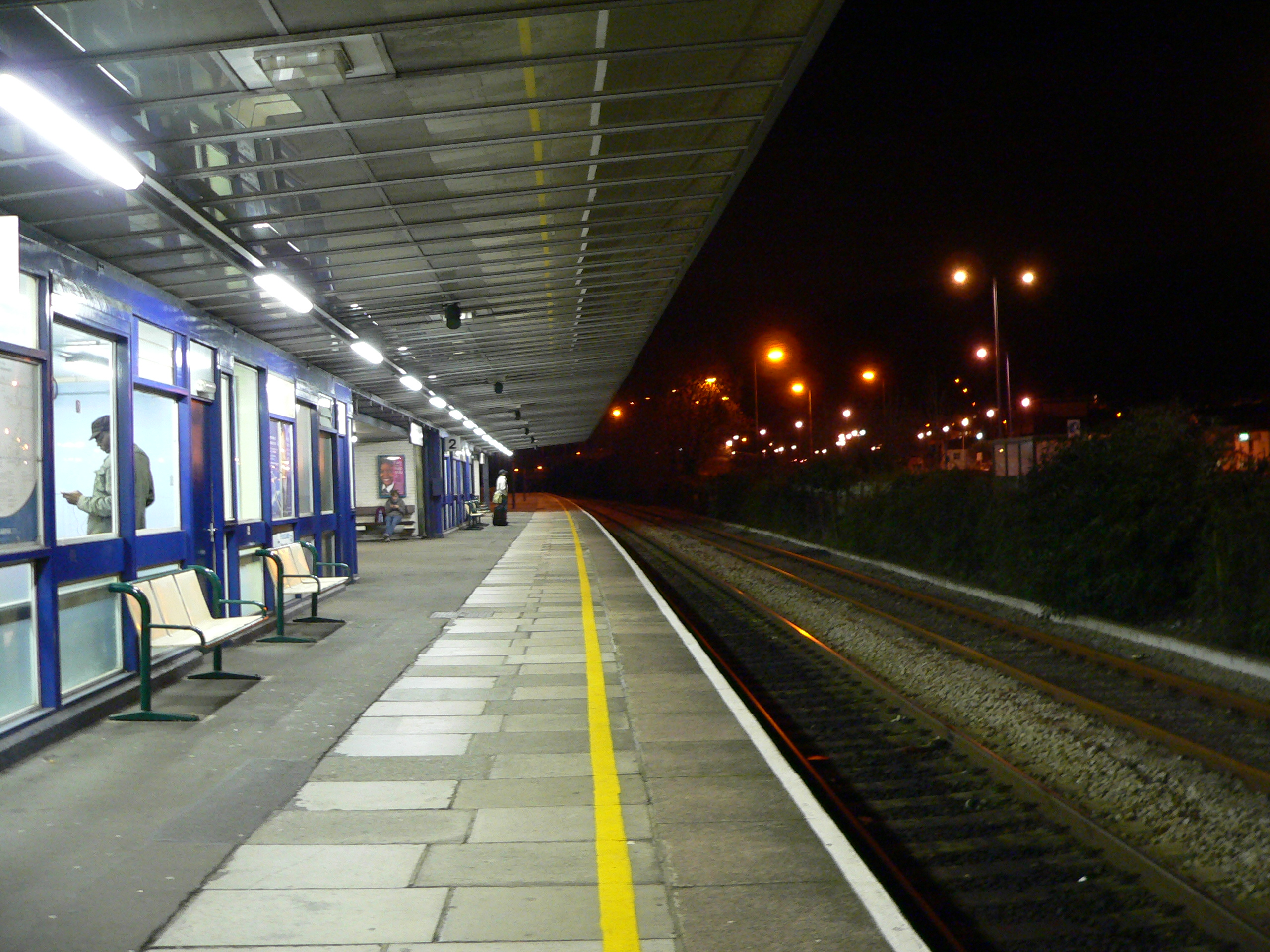 Platform 2 at Port Talbot Parkway railway station is on the north-east side of the island platform and is served by eastbound trains towards Bridgend, Cardiff, Bristol and London. This view is looking northwest towards Swansea